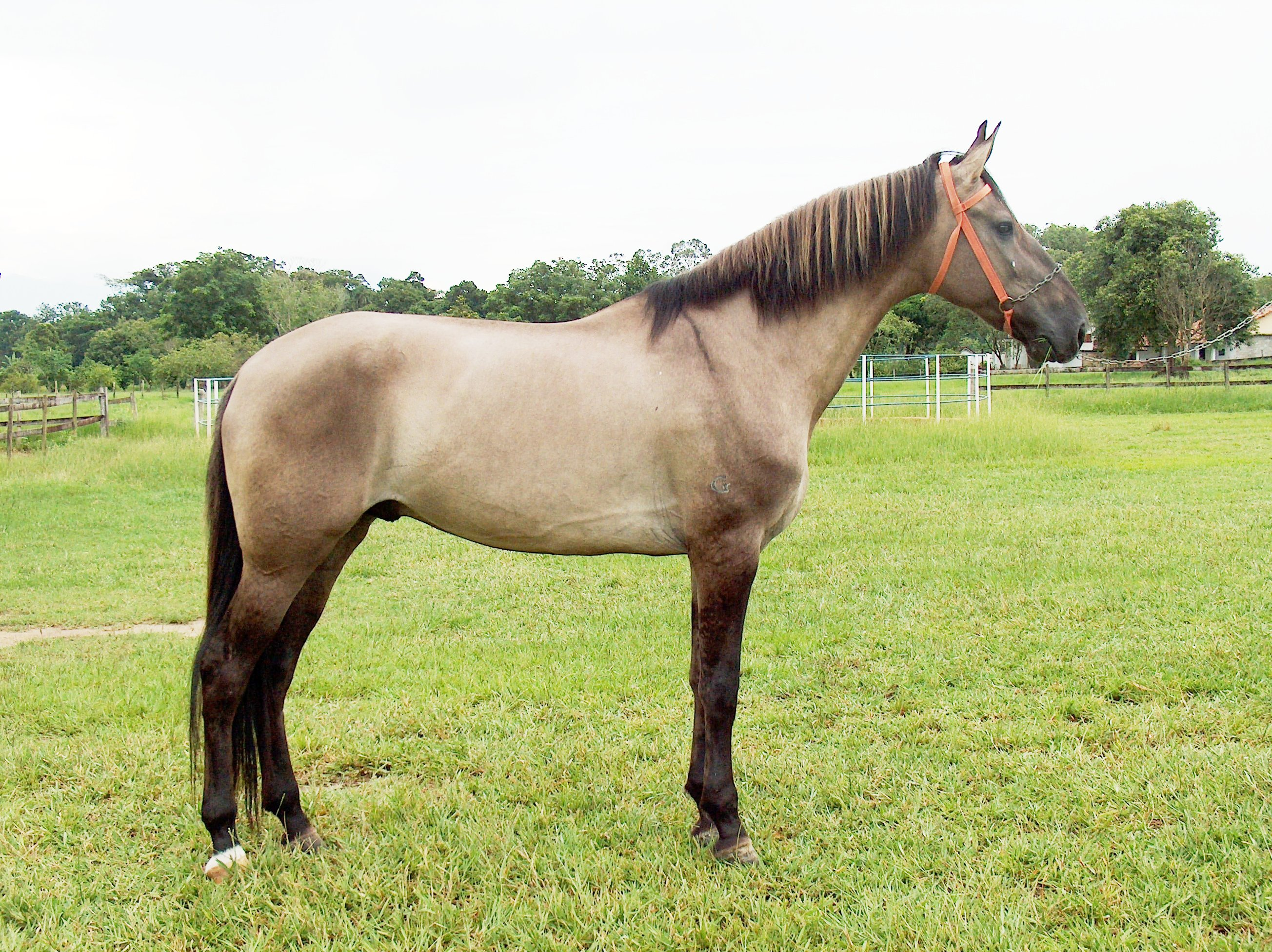 Male Campolina stallion